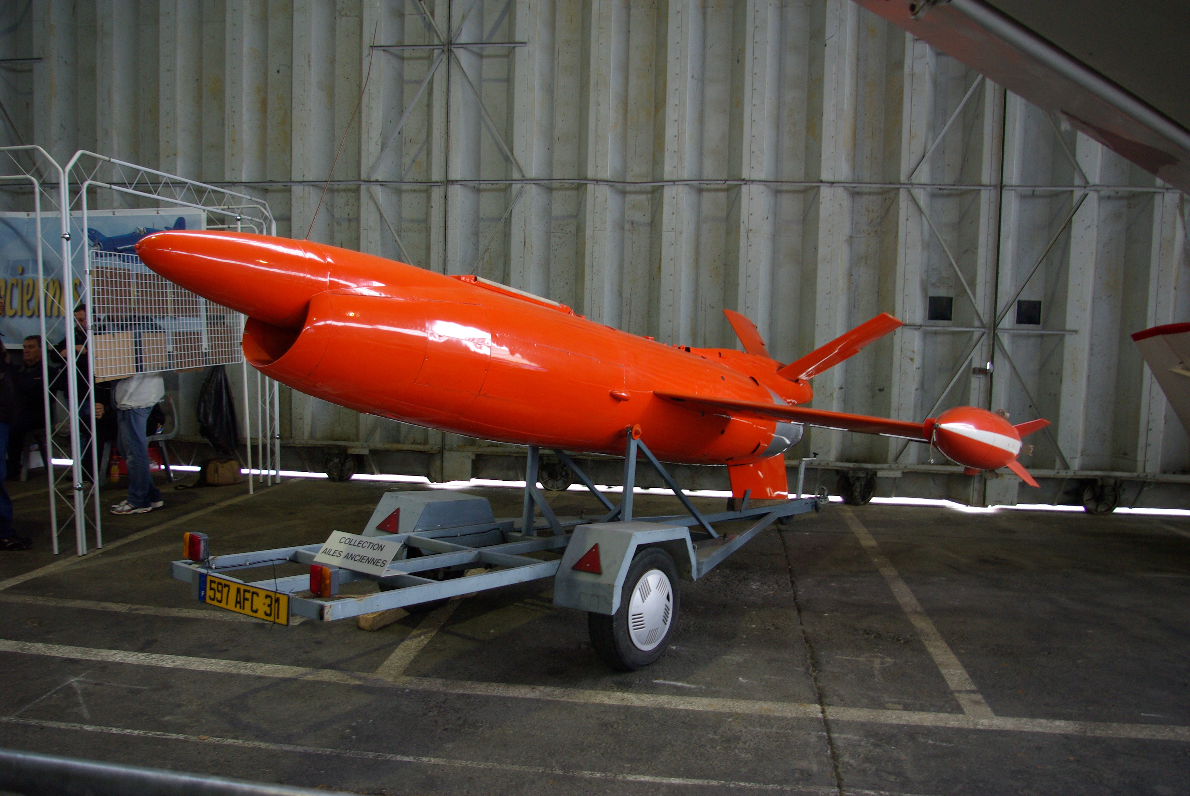 French target drone Nord Aviation CT.20 belonging to the Musée des ailes anciennes (Toulouse, France)